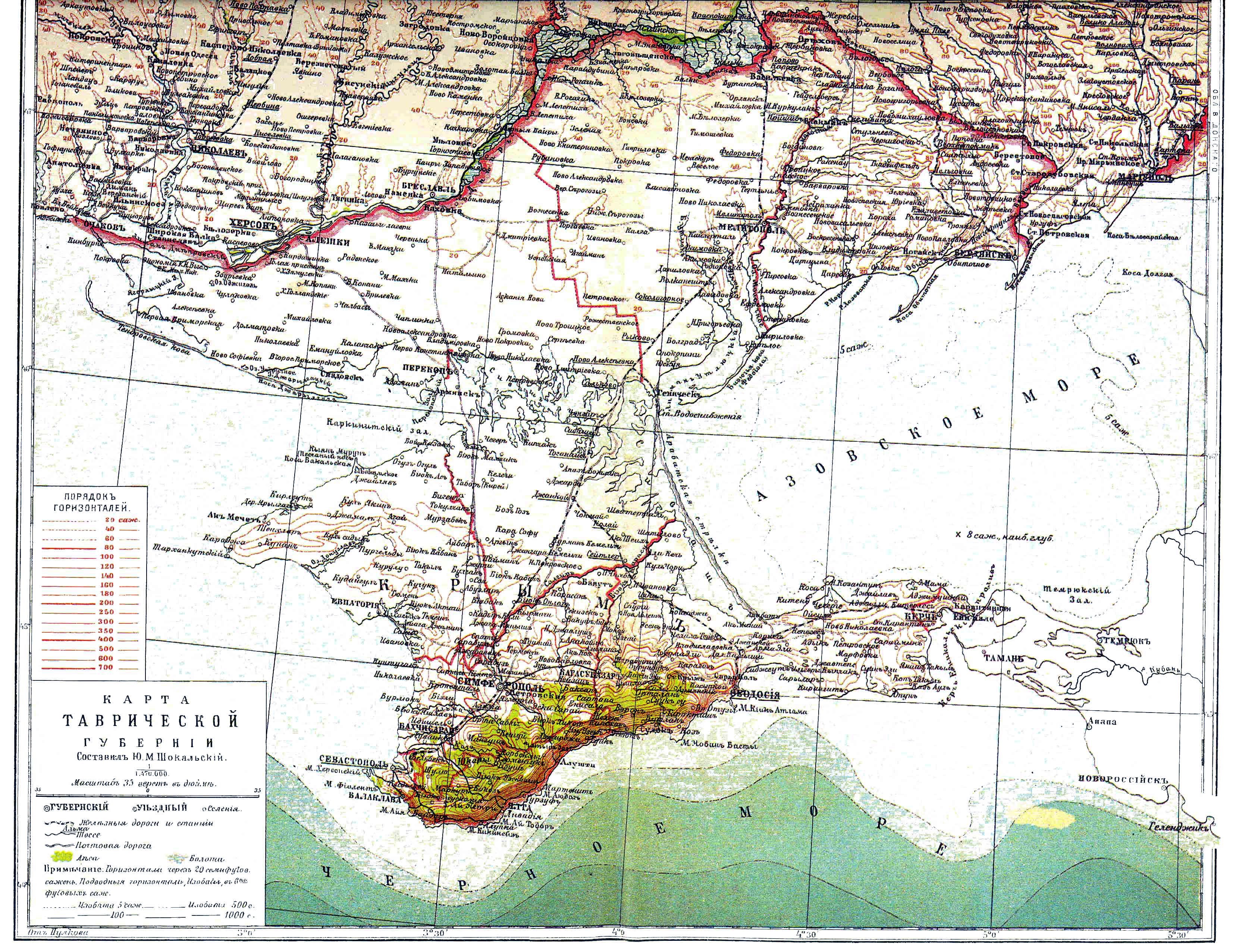 Illustration from Brockhaus and Efron Encyclopedic Dictionary (1890—1907)